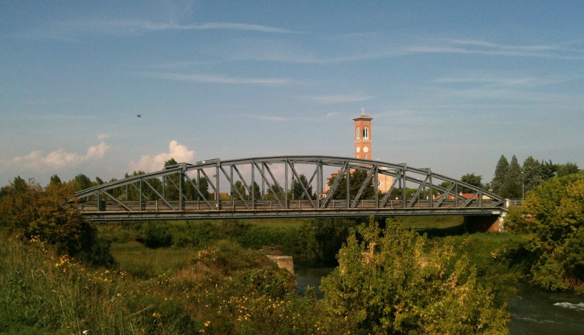 Ponte san Nicolò (Padova, Italy) - Bridge